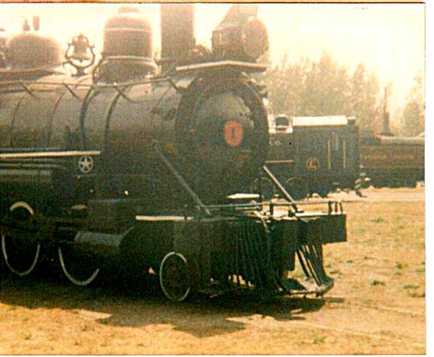 Brook Scanlon #1 on display at Steamtown USA Bellows Falls VT, C. 1974